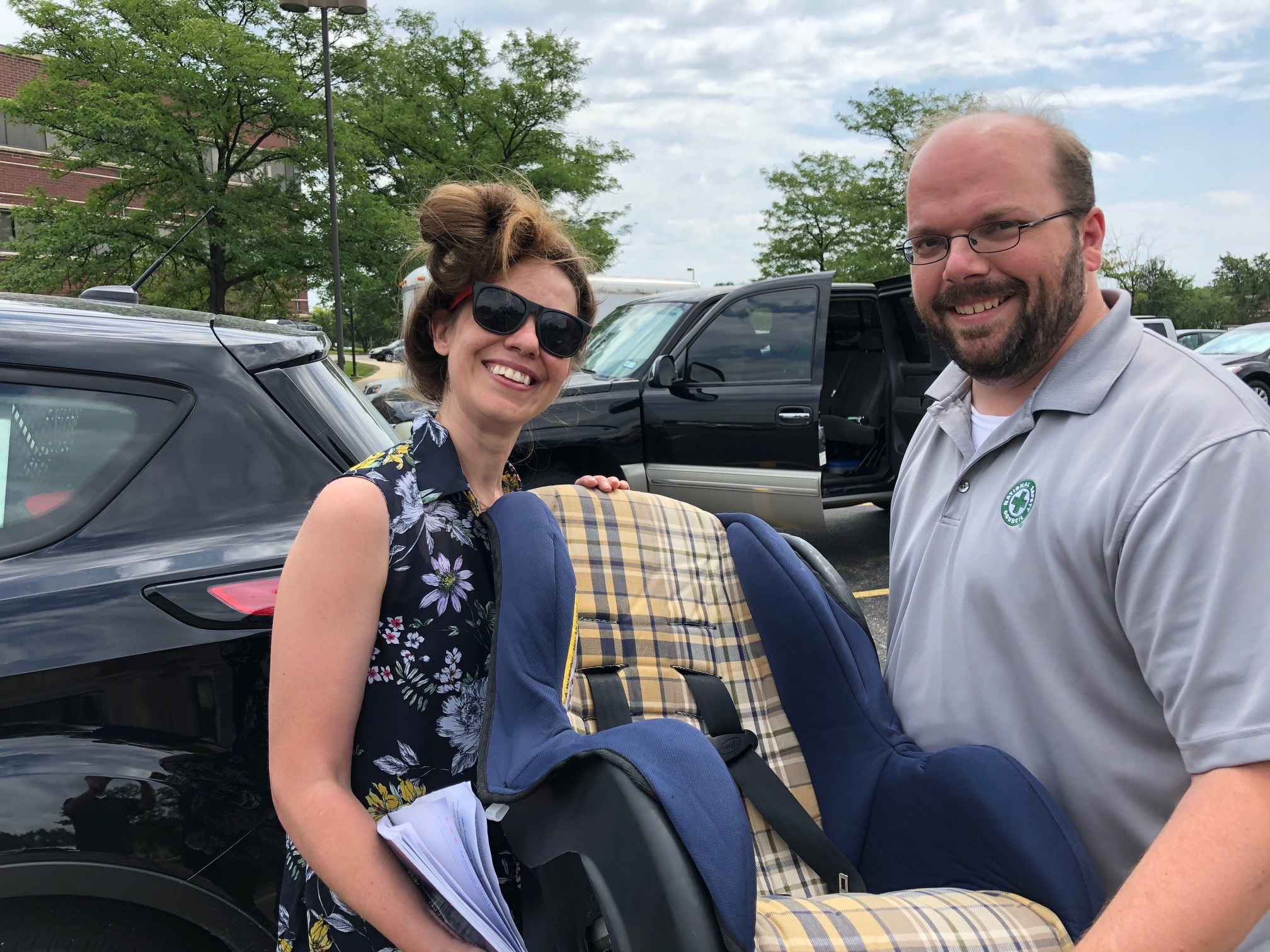 CPS technicians work in the parking lot at the National Safety Council.